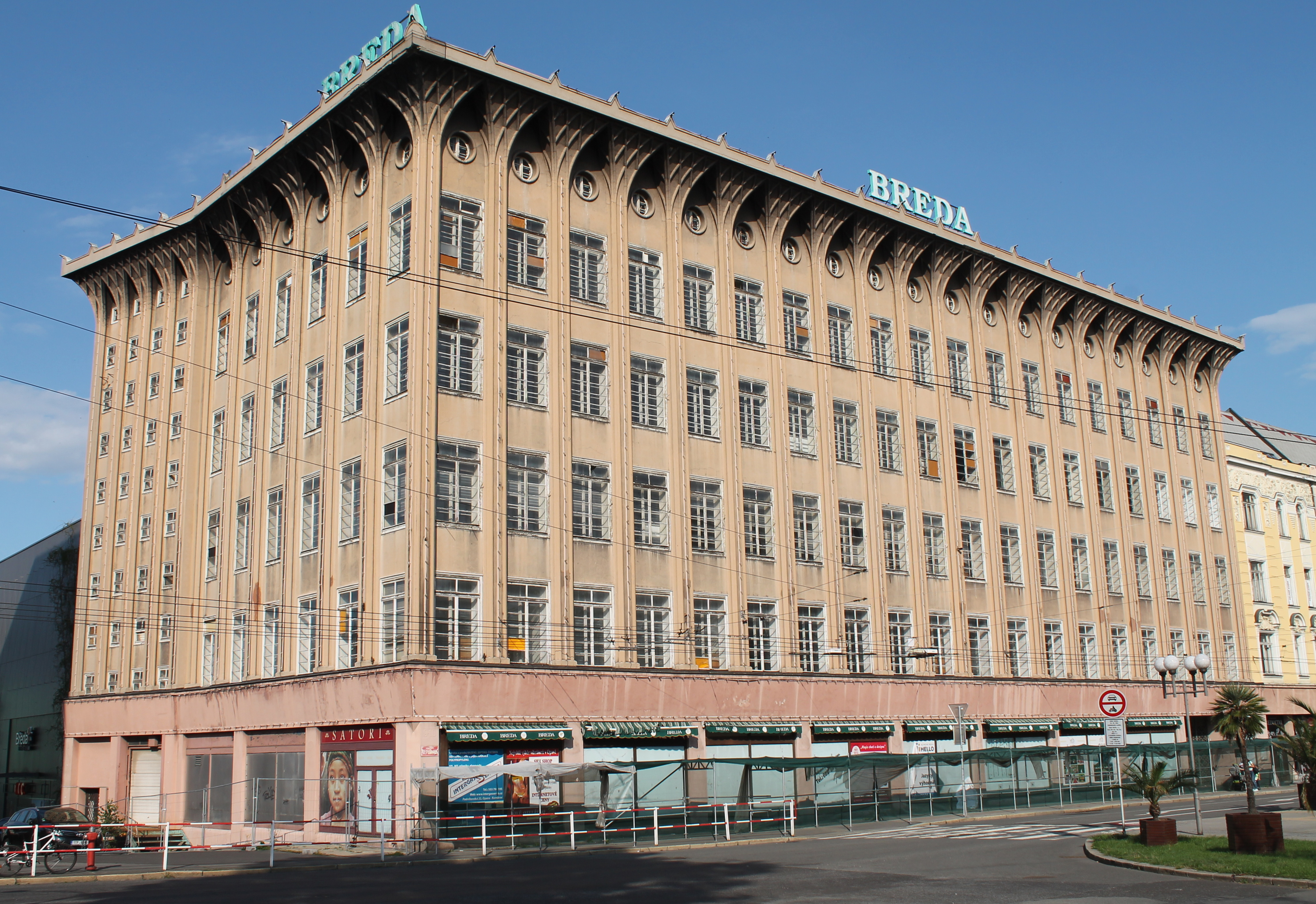 Breda shopping center, Opava, Opava District, Czech Republic